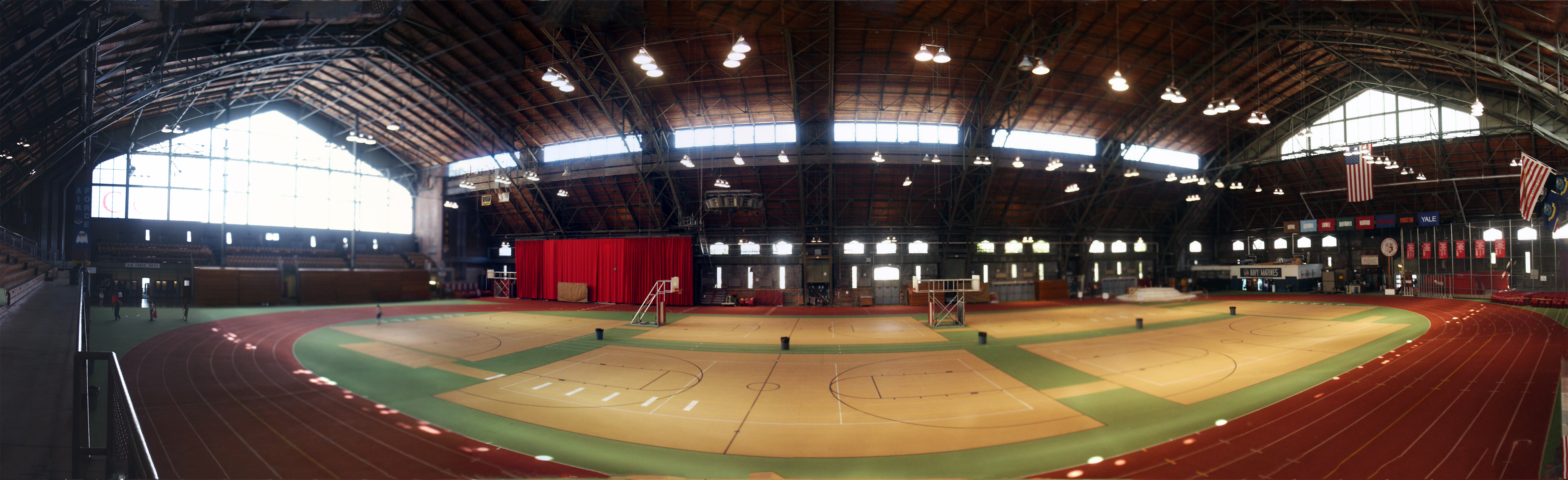 Panorama by User:Xtreambar. I release all rights -- free to distrubute and edit. Panorama of Barton Hall at Cornell University.